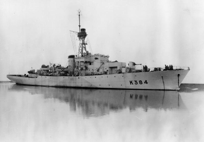 Photograph of British corvette HMS Leeds Castle.